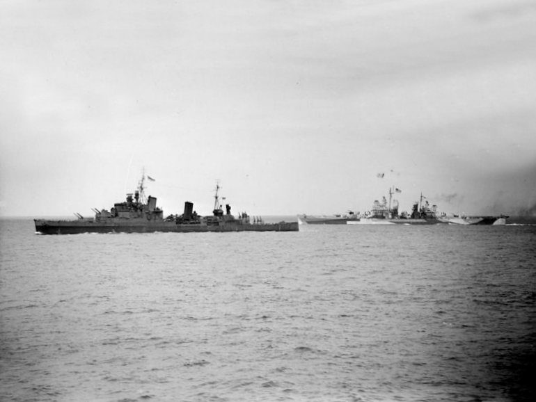 The cruisers HMS Glasgow (C21), left, and USS Quincy (CA-71), right, during the bombardment of Cherbourg in support of the advancing Allied troops.